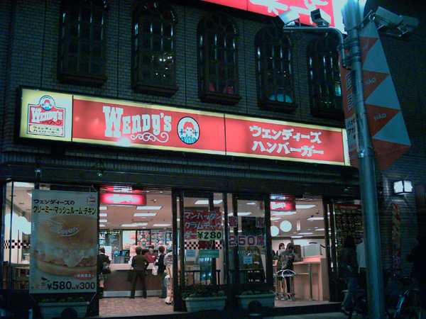 Wendy's_Fast food restaurant Japan photography day, 2006/11/10 photography person kici ウェンディーズ Wendy's